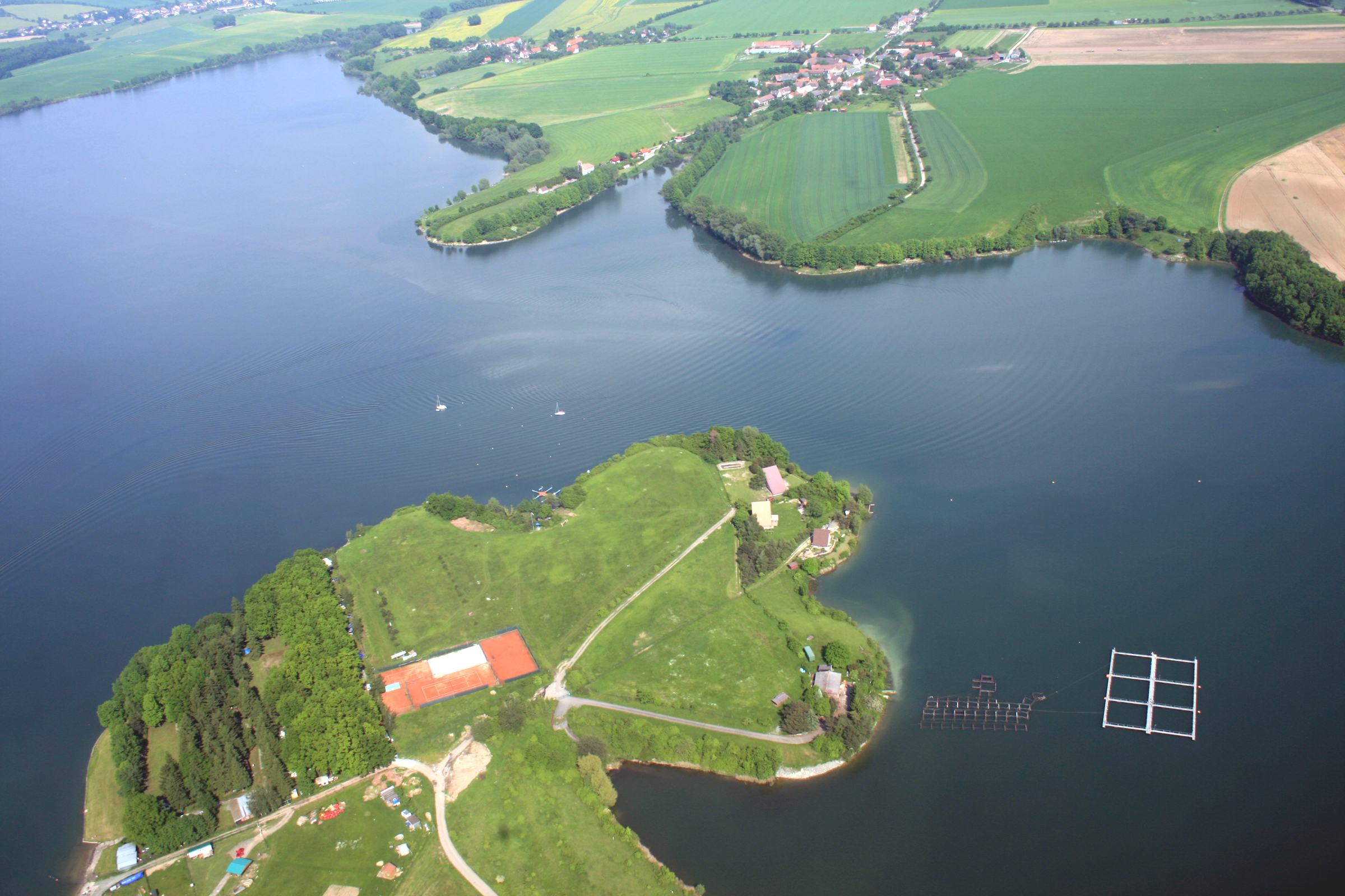 Part of reservoir Rozkoš and villge Lhota from air, eastern Bohemia, Czech Republic